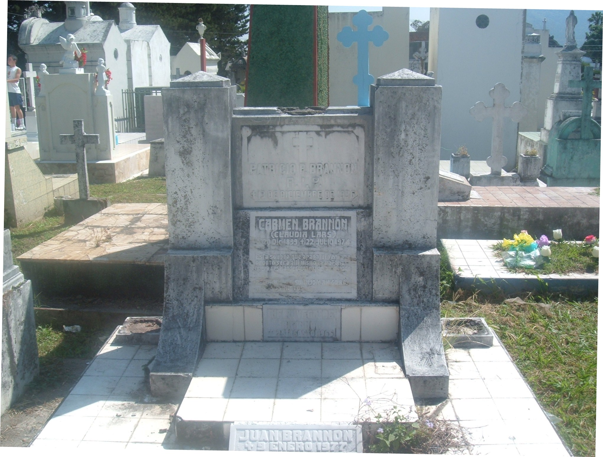 Claudia Lars' tomb. A noted salvadorean writer and poetess of the XX century.